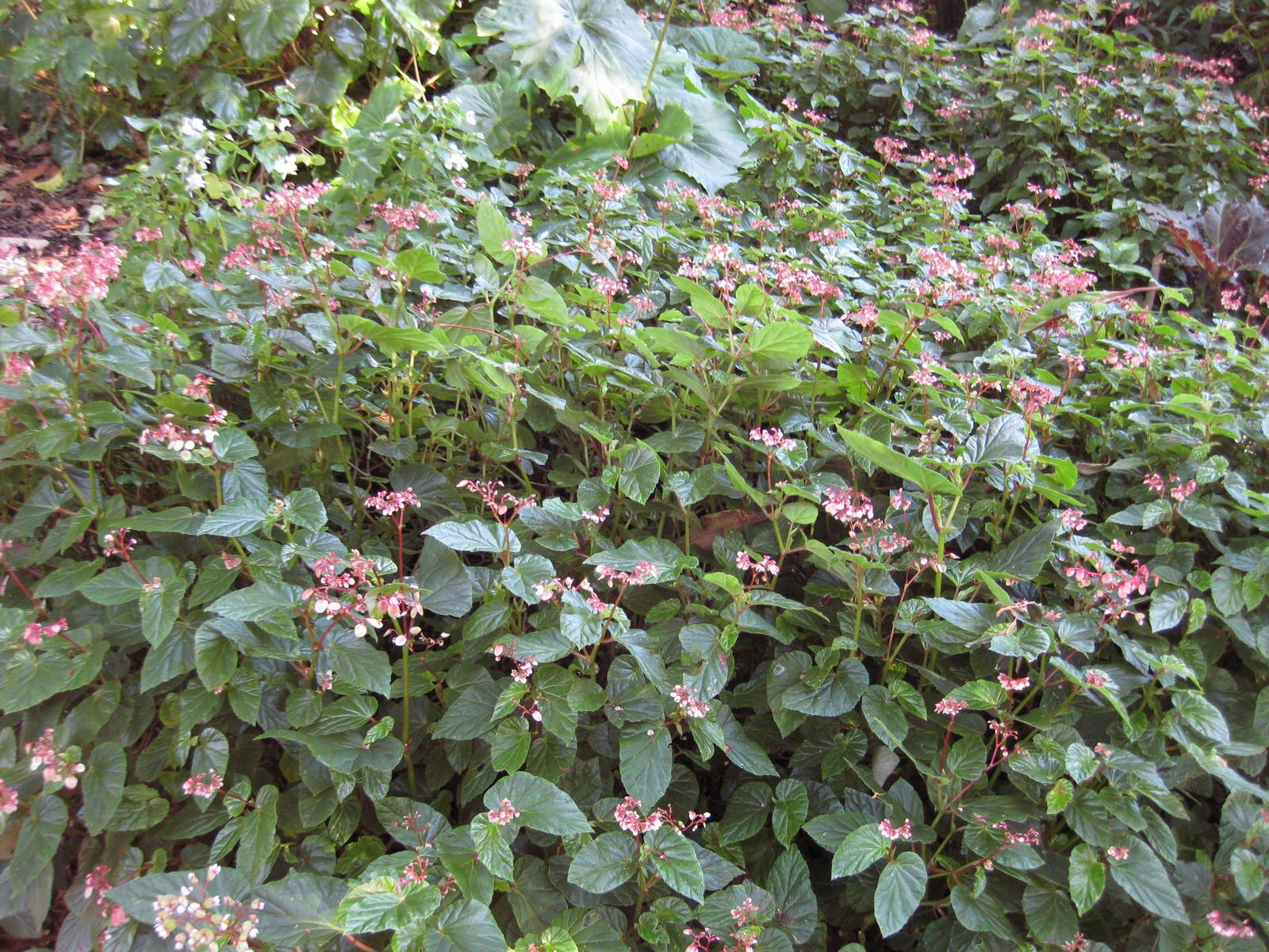 Photographed at the Royal Botanic Gardens Sydney (Australia) in December